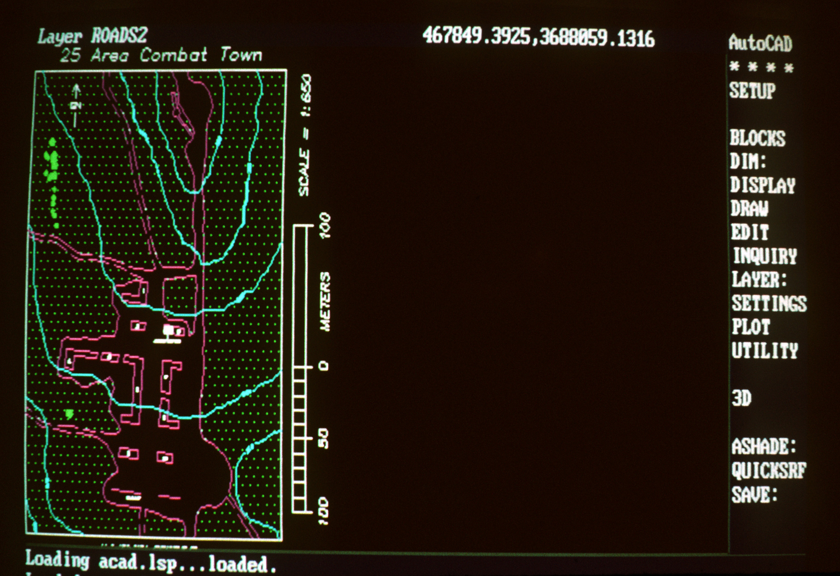 A view of a computer map enhancement display aboard the amphibious assault ship USS PELELIU (LHA 5) during PACEX '89. AutoCAD Map.